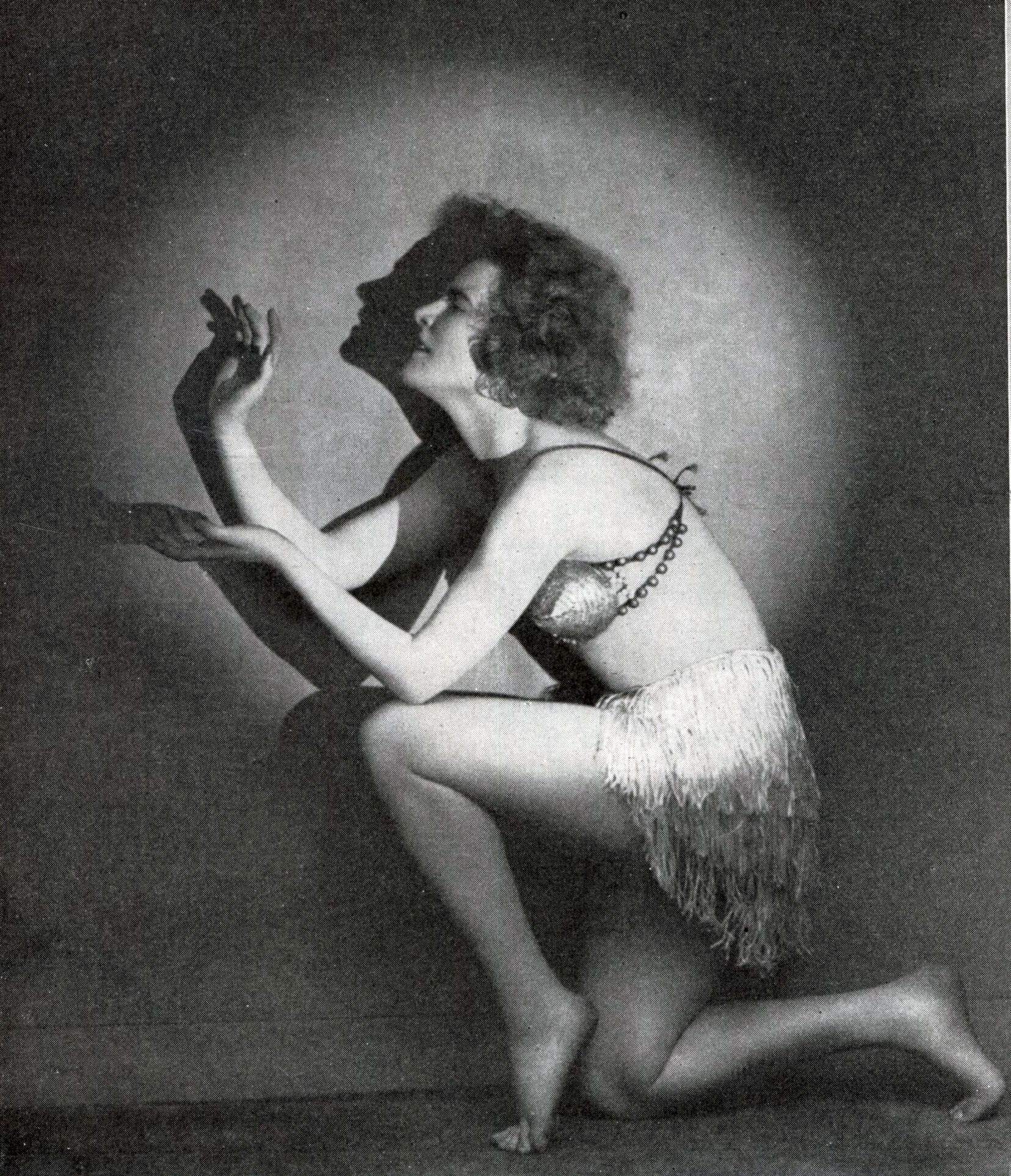 Ella Ilbak (1895-1997). Photo in the Swedish magazine Scenen 1928.